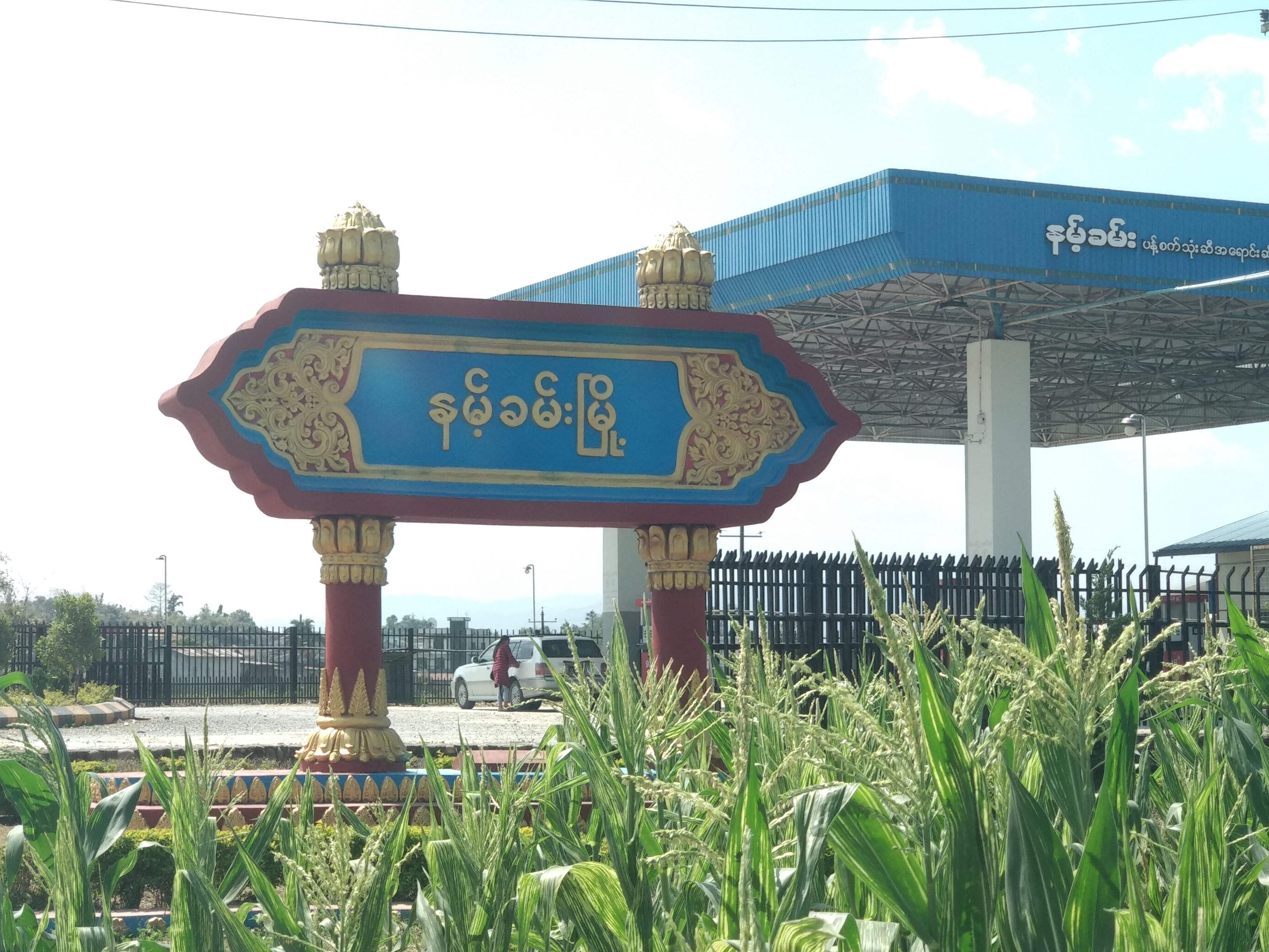 Nan Khan Town